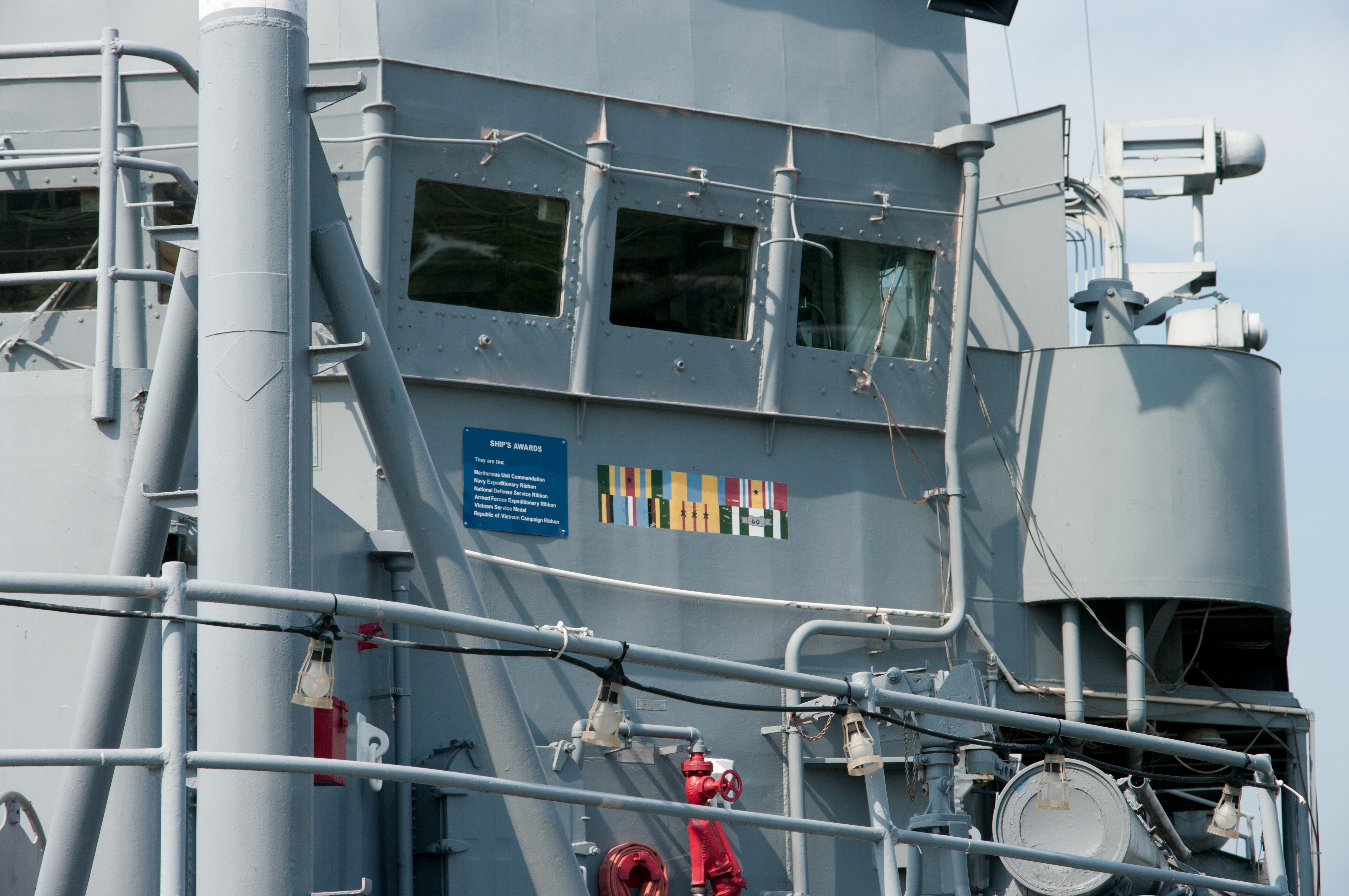 on board the USS Barry DD-933 USS Barry decorations